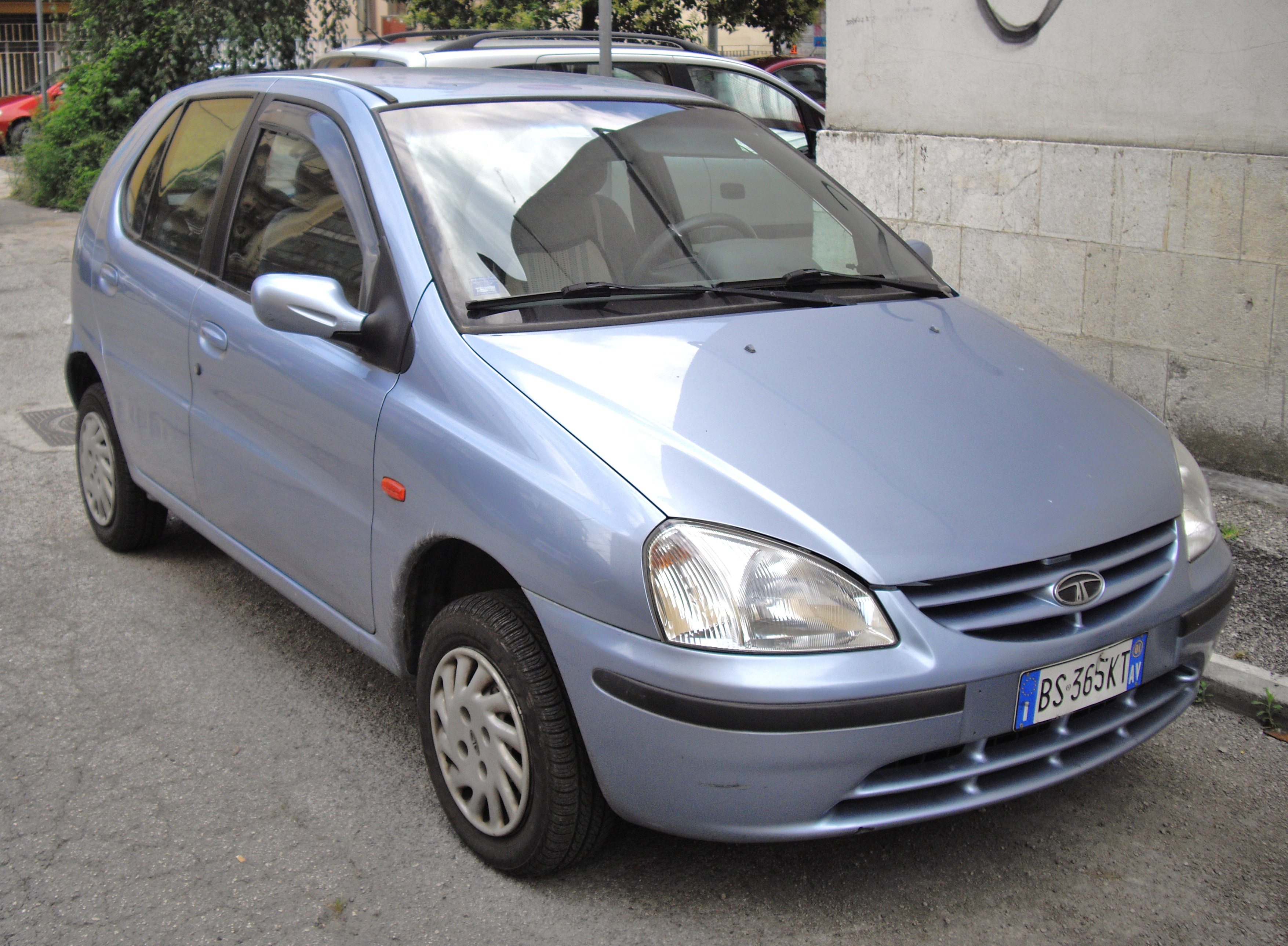 2000 Tata Indica